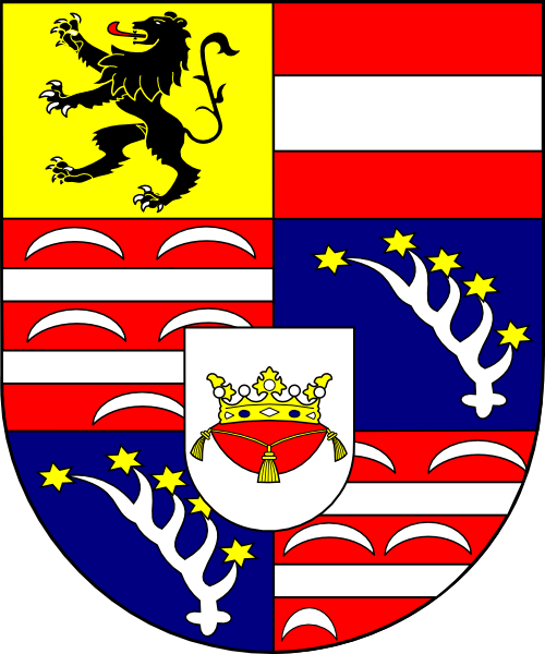 Coat of arms (shield only) of Leopold Anton Eleutherius von Firmian, bishop of Lavant, Austria (1718 - 1724), bishop of Seckau, Austria (1724 - 1727), bishop of Ljubljana, Slovenia (1727), archbishop of Salzburg, Austria (1727 - 1744).